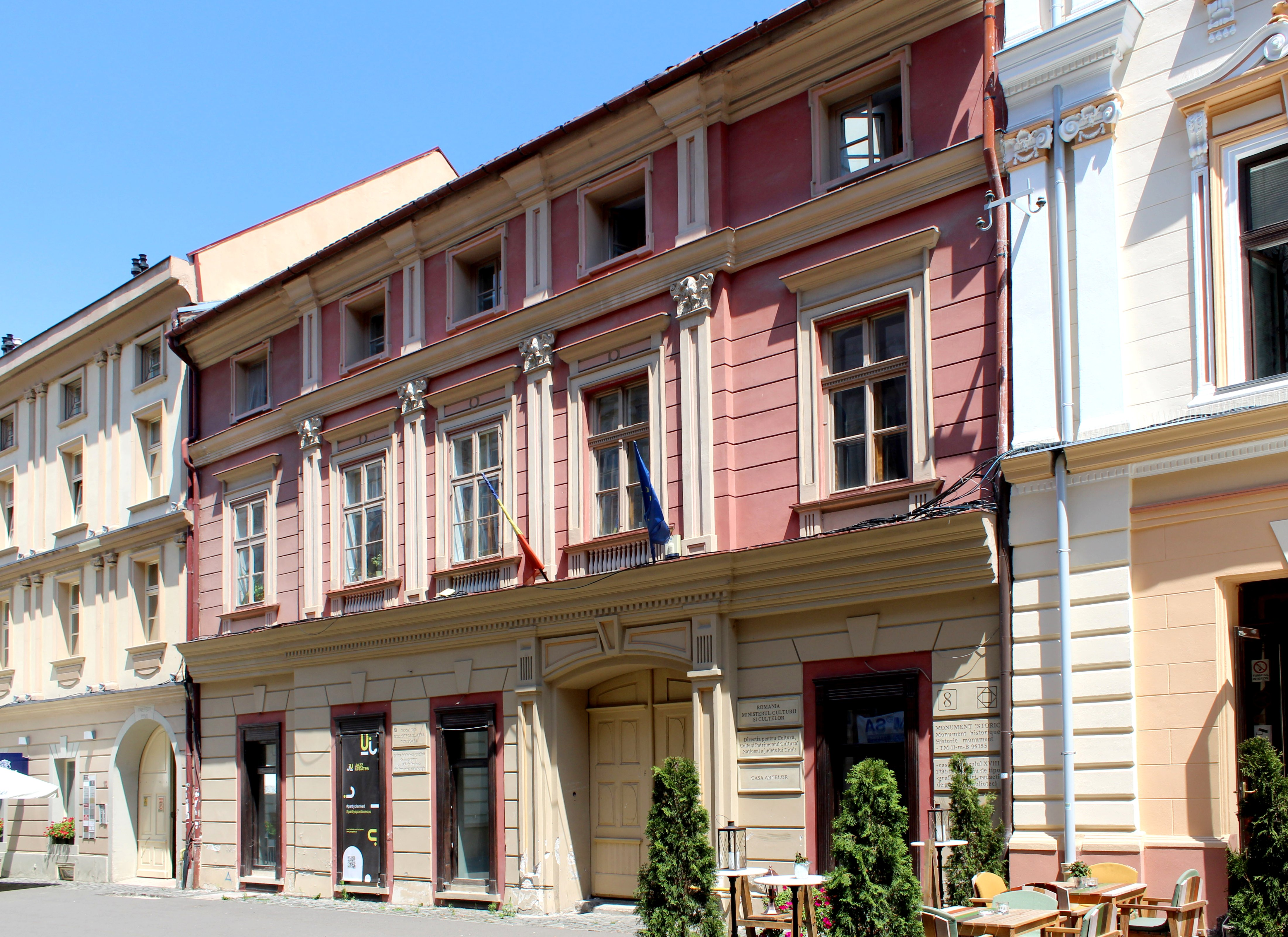 House of Arts, Timișoara, România, built 1752